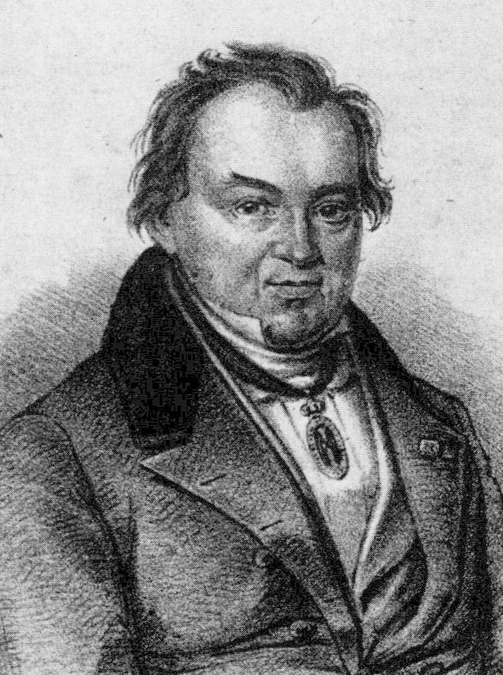 Swedish doctor, author, translator and member of the Riksdag Magnus Martin af Pontin (1781-1858)